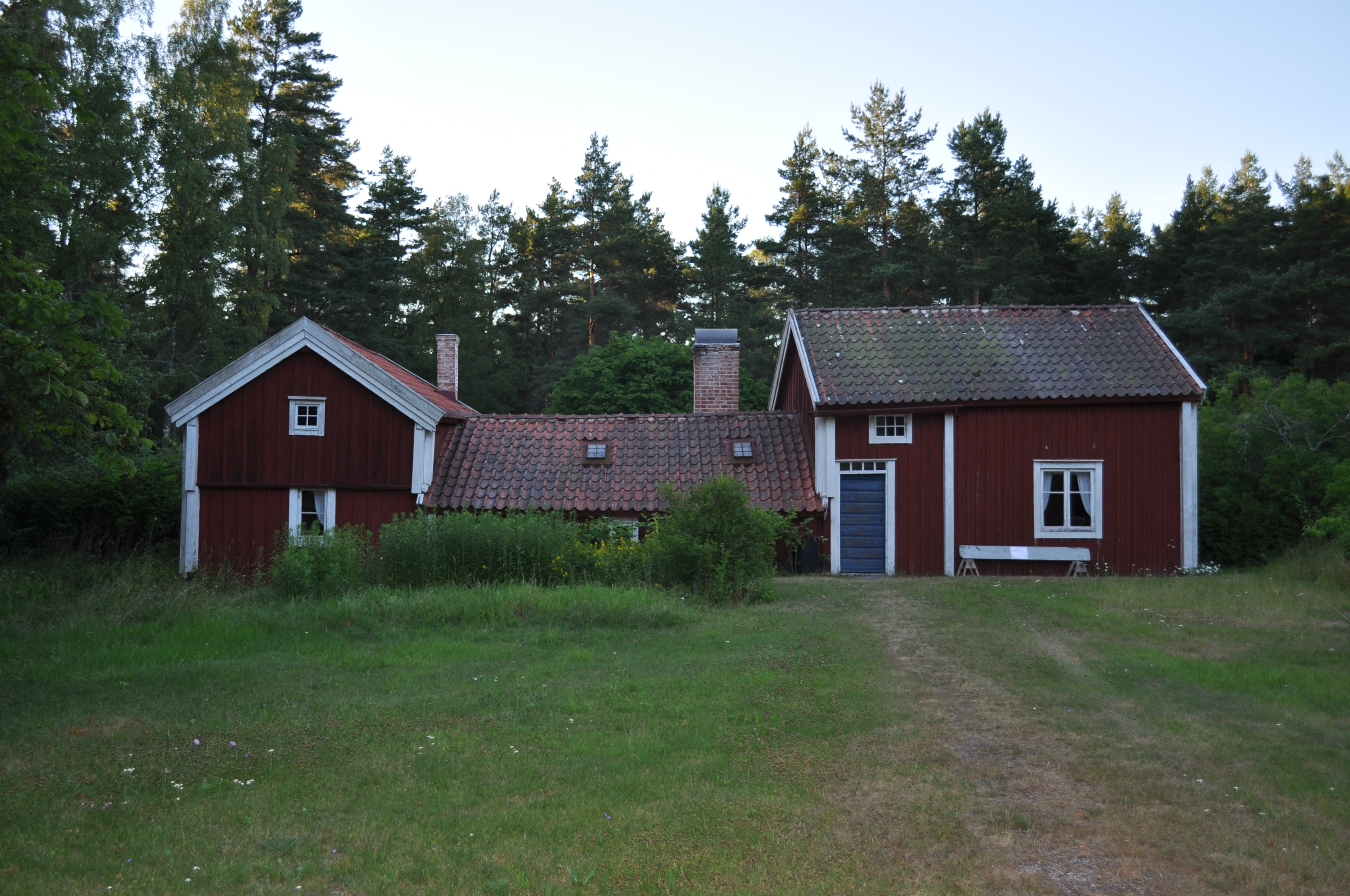 Möllerydstugan, frontside. (Sydgötiska huset or högloftstuga), The only house left who are on the original place